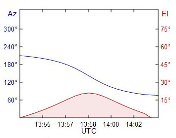 example of satellite tracking data: azimuth and elevation against time